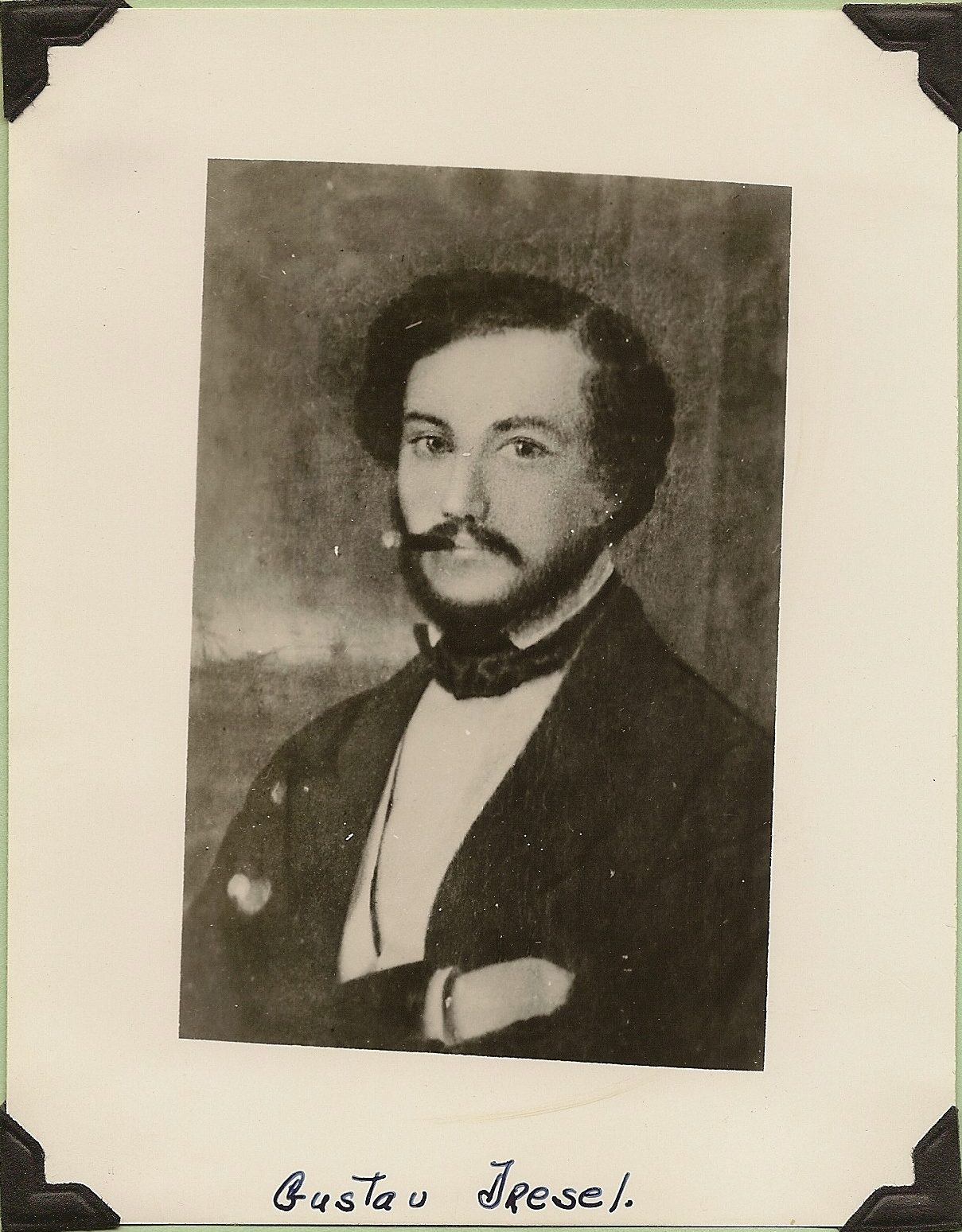 Gustav Dresel